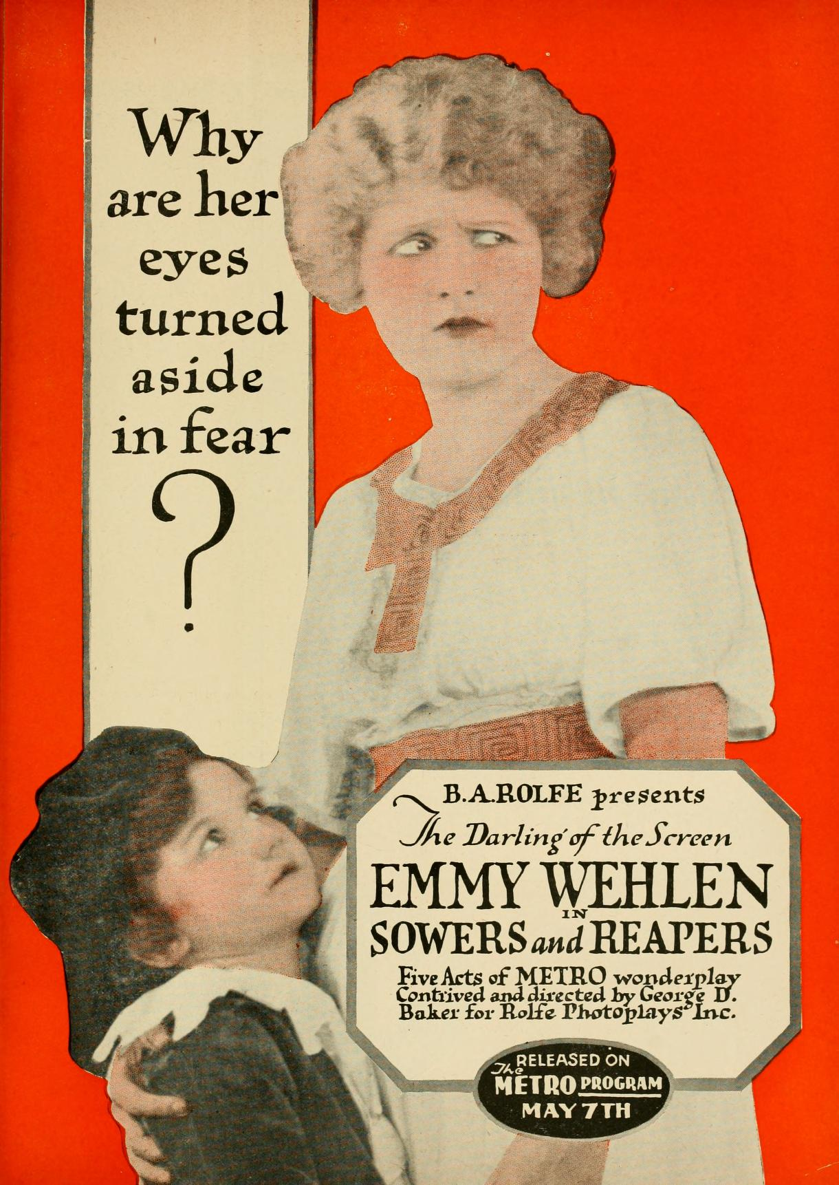 Advertisement in Moving Picture World